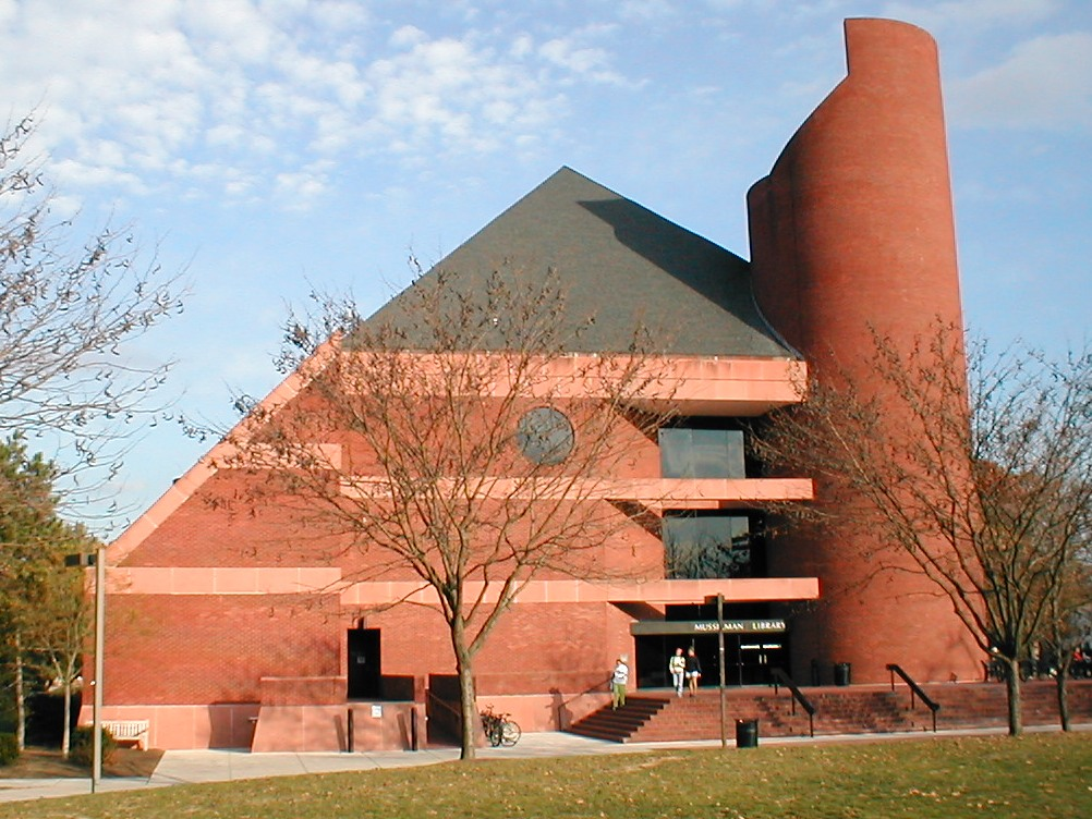 Front of Musselman Library (outside)